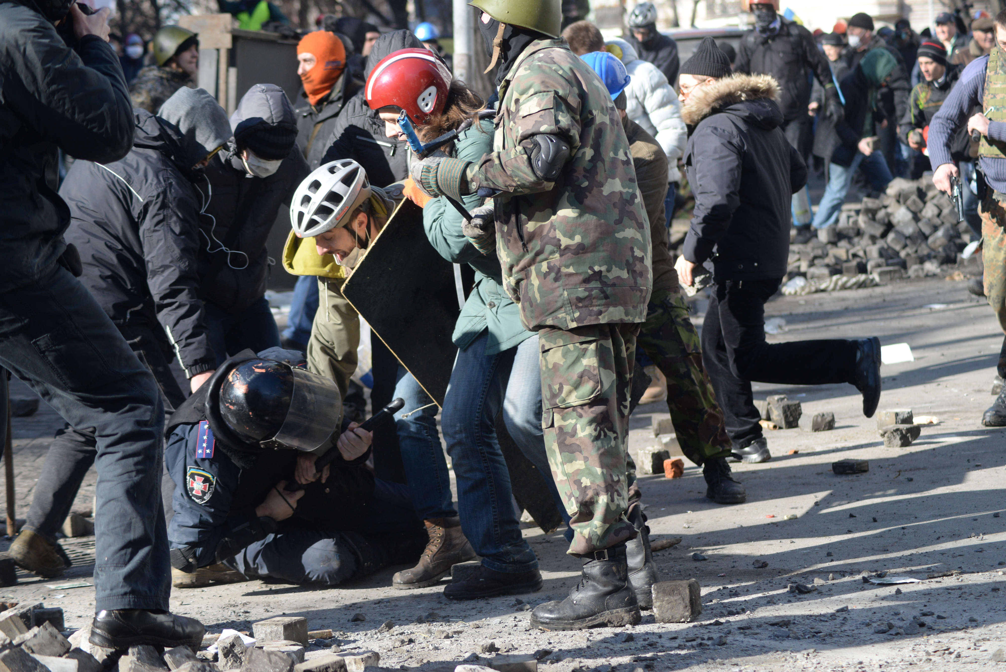 A police officer attacked by protesters during clashes in Ukraine, Kyiv. Events of February 18, 2014-1